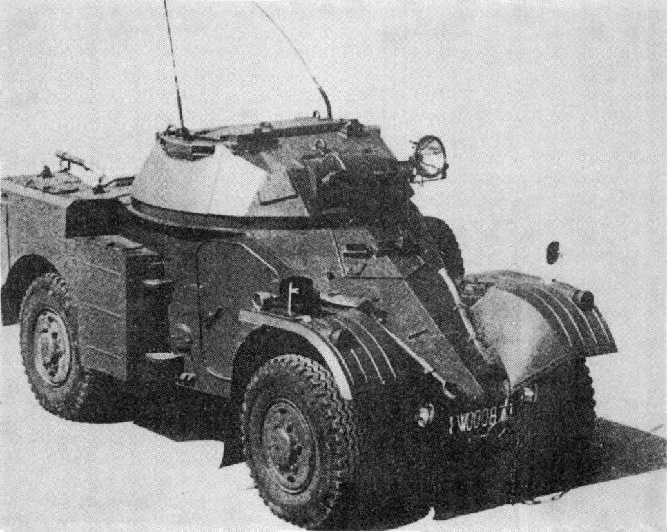 French AML counterguerrilla vehicle